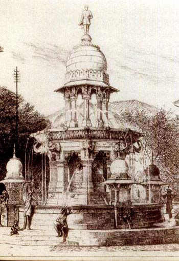 Mulji Jetha Fountain, Bombay - 19th-century drawing